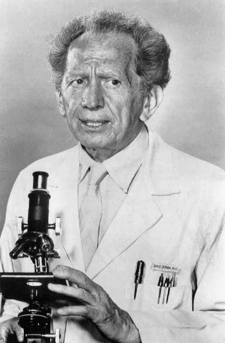 Photo of Sam Jaffe as Doctor Zorba from the television program Ben Casey.